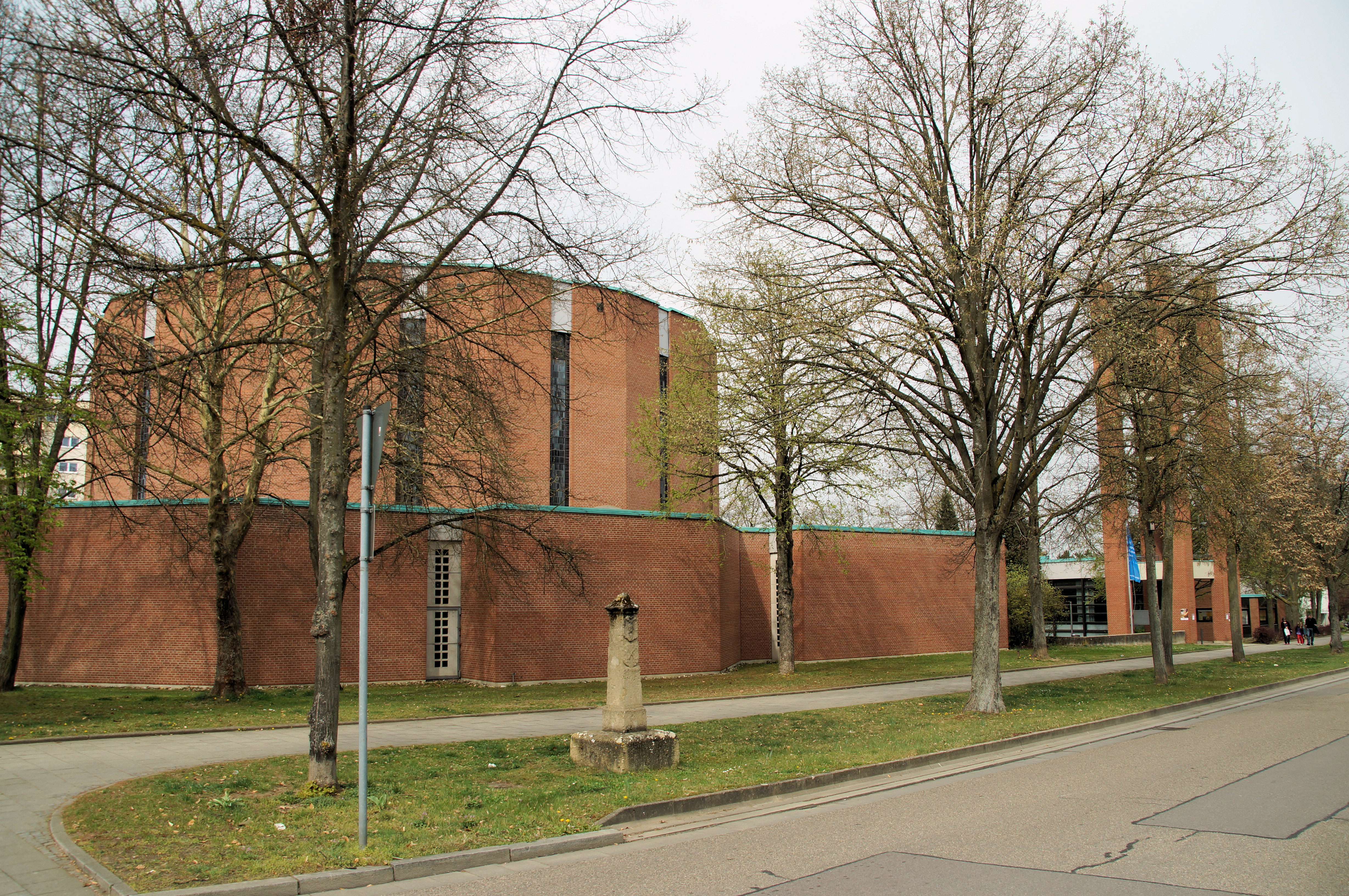 Kath. Pfarrkirche St. Bonifaz, Rundbau mit Zeltdach und freistehendem Glockenturm, Sichtziegelmauerwerk, 1969/70 von Kurt und Klaus Oberberger; mit historischer Ausstattung. This is a photograph of an architectural monument.